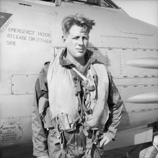 Kimpo, South Korea. 1951. A33624 Sergeant V. Drummond, a pilot of No. 77 Squadron RAAF, beside his Gloster Meteor Mk8 aircraft. Sergeant Drummond was shot down and taken prisoner shortly after this picture was taken.